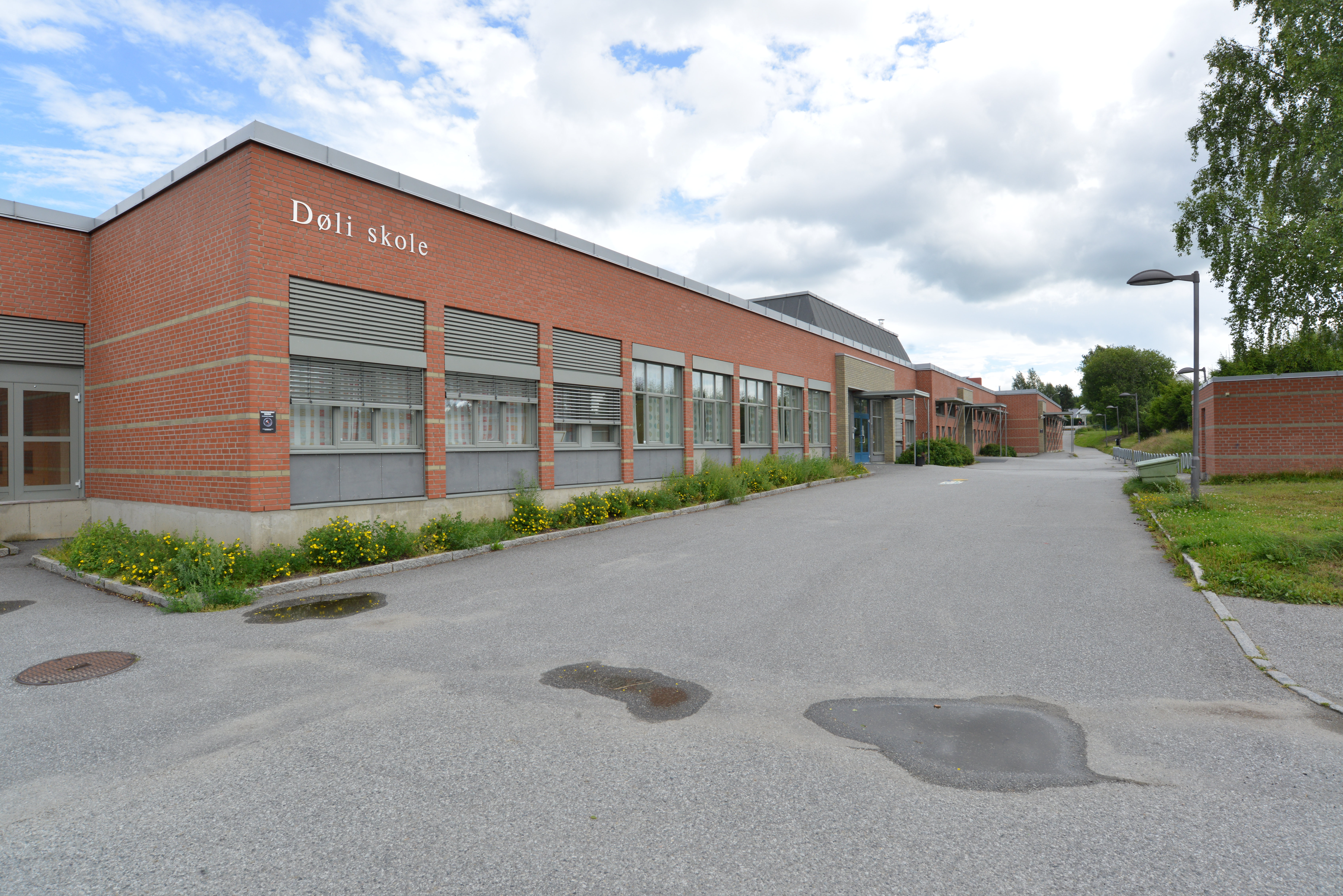 Døli school on Jessheim